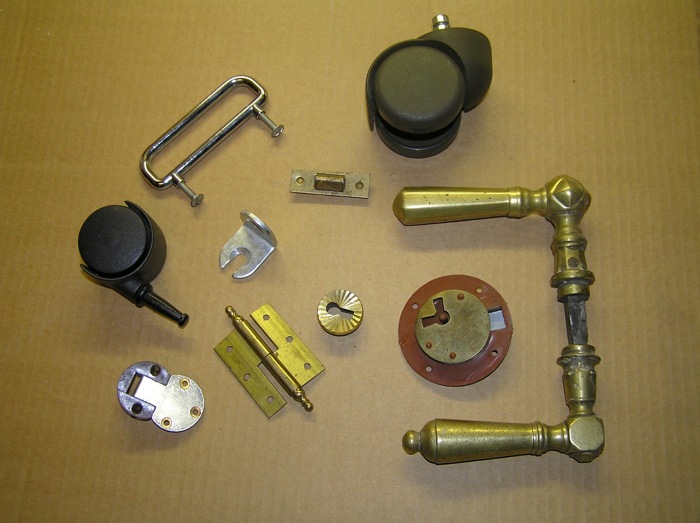 Furniture fittings